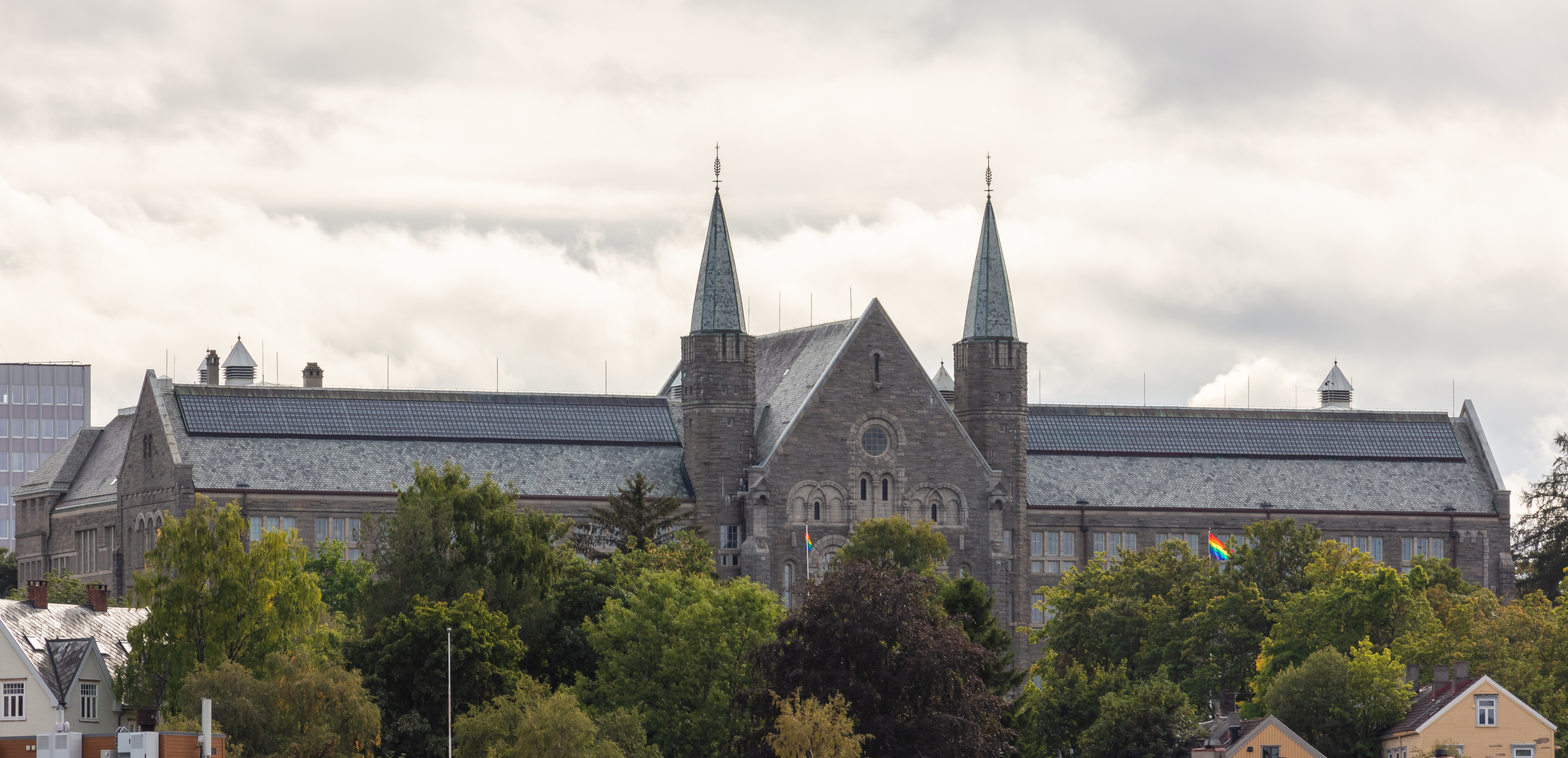 Main building of the Trondheim University, Trondheim, Norway